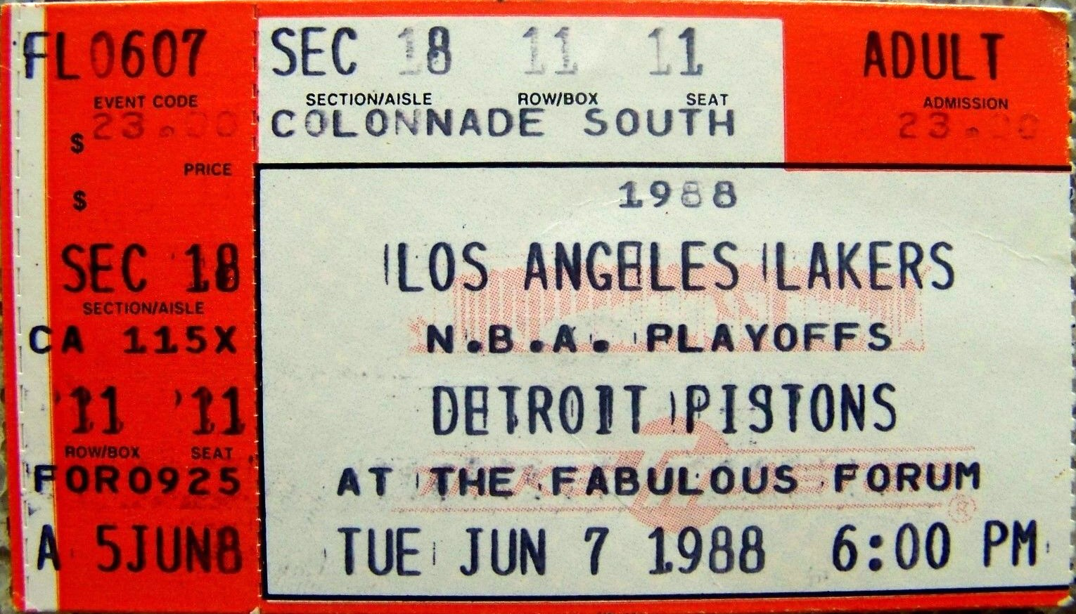 A ticket for Game 1 of the 1988 NBA Finals featuring the Detroit Pistons versus the Los Angeles Lakers at the Forum on June 7, 1988. The Pistons defeated the Lakers 105-93 in Game 1 but the Lakers eventually won the series 4-3.